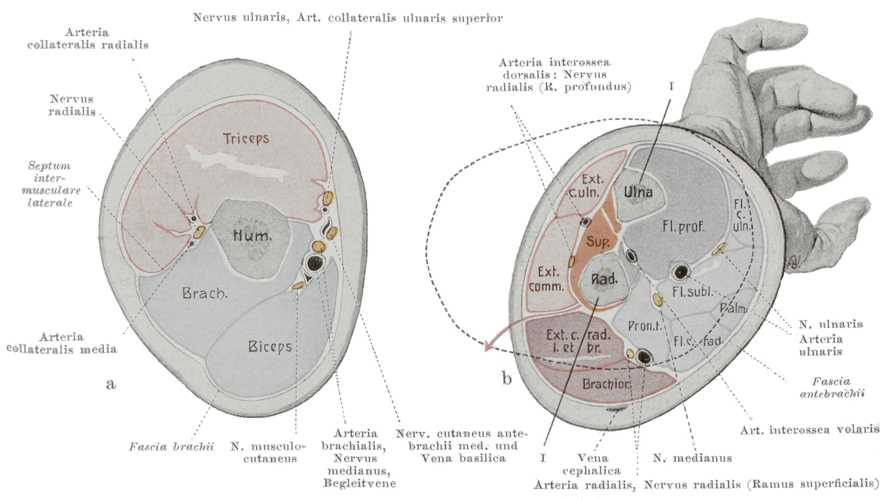 An anatomical illustration from the 1921 German edition of Anatomie des Menschen: ein Lehrbuch für Studierende und Ärzte with latin terminology.